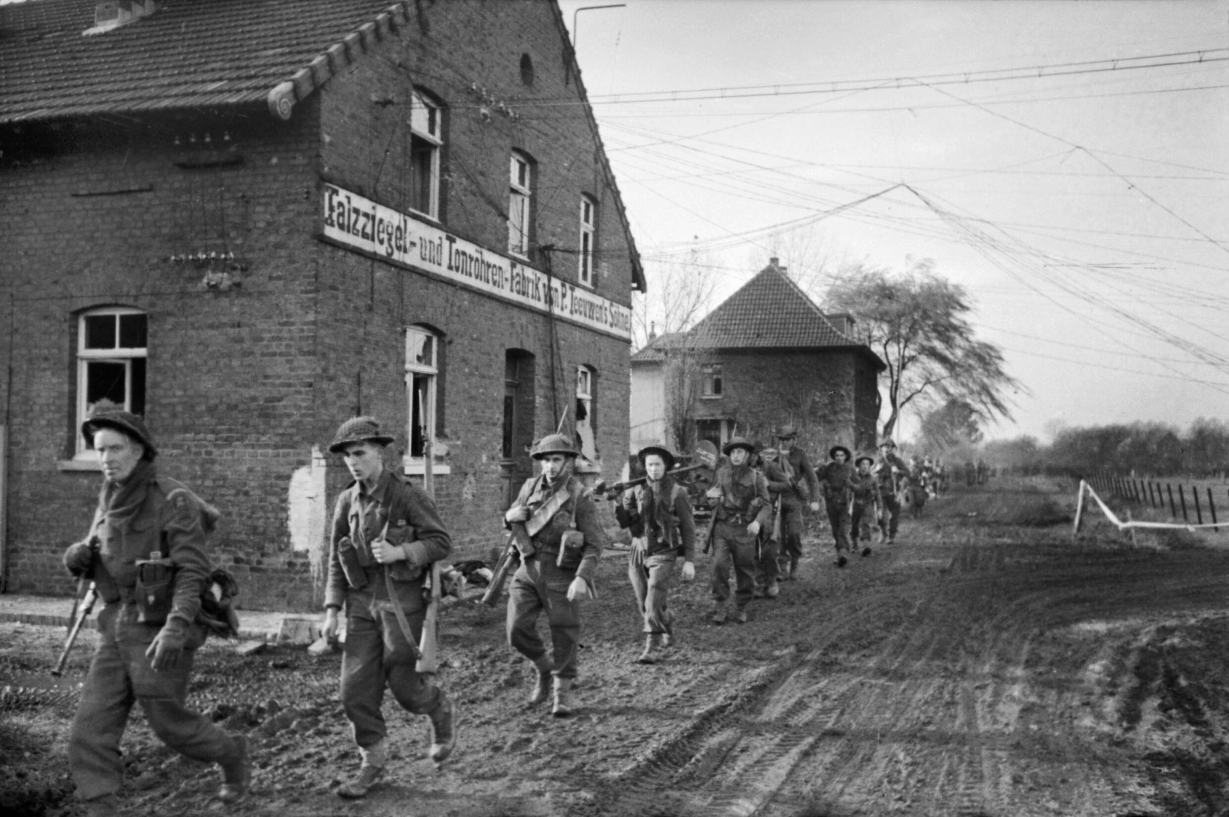 British infantry march through a German village near Geilenkirchen, 5 December 1944. Infantry march through a German village near Geilenkirchen, 5 December 1944.